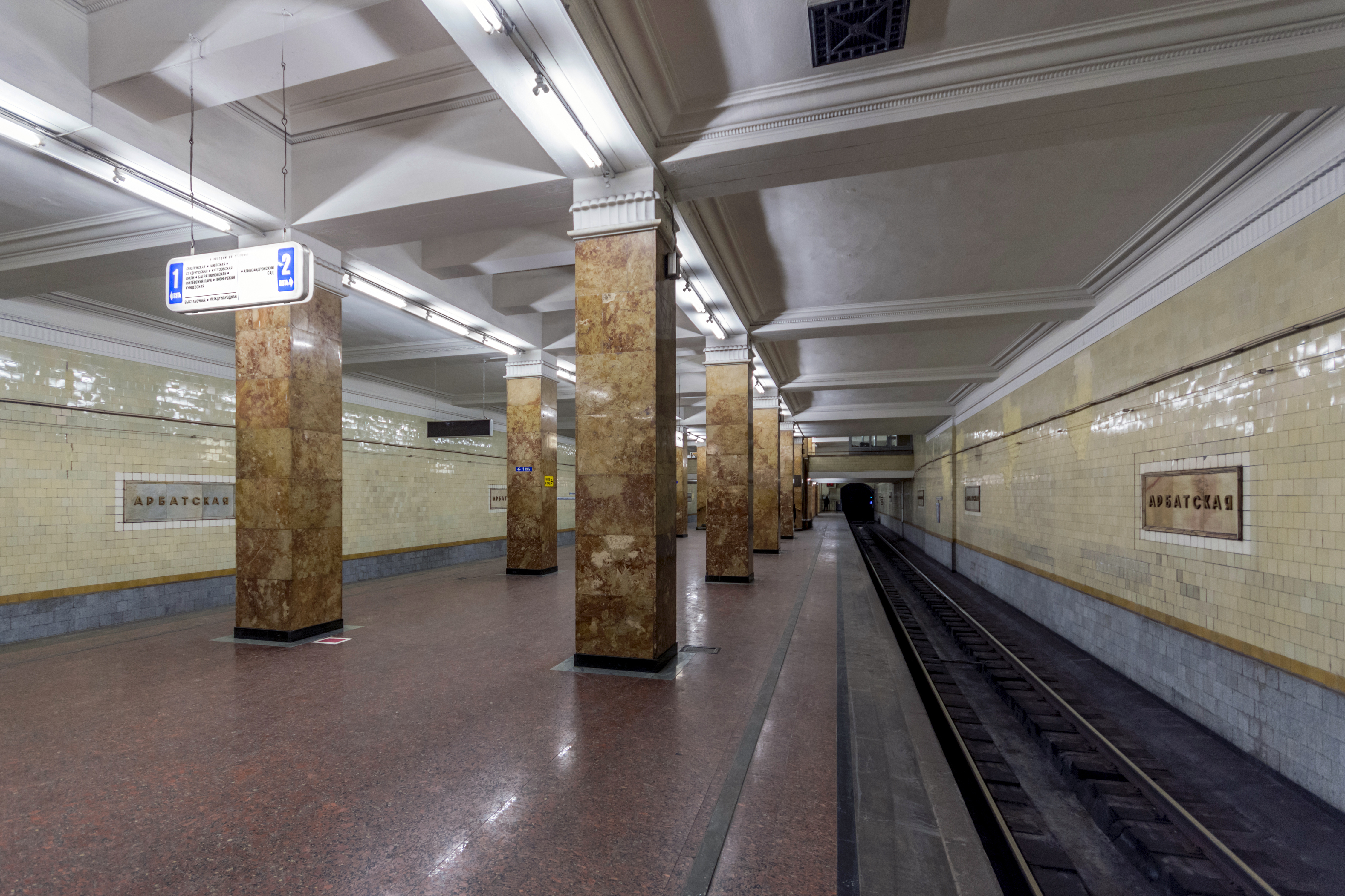 Arbatskaya Station of Moscow Subway